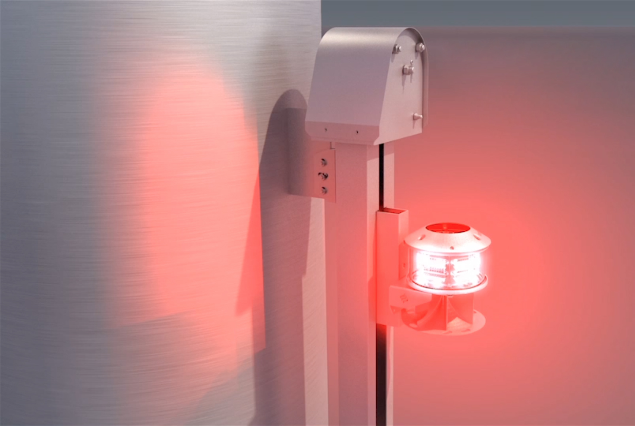 Retractable System for Aircraft Warning Lights, Process Analysers, Spot and Flood Lights, Radio Antennas, Radar